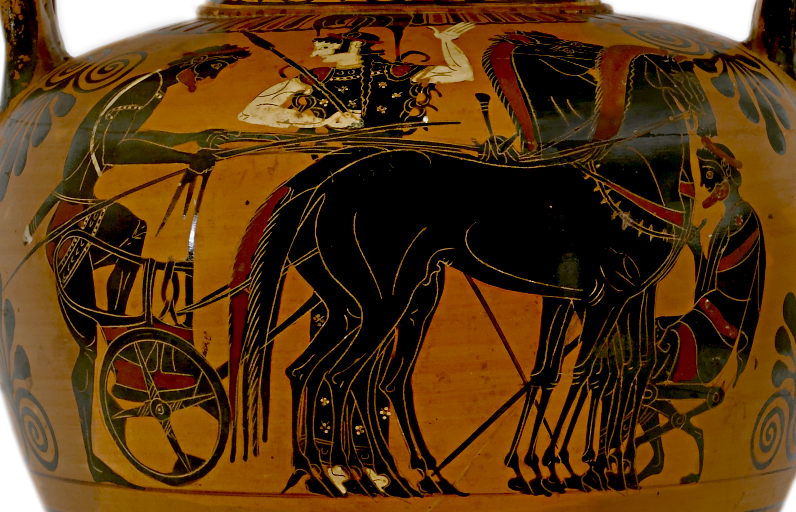 Detail of Attic Black-Figure Amphora ca. 530 and 520 BCE. The original photo was uploaded by Walters Art Museum with the following description: On one side of this black-figure amphora, a bearded man in a short chiton is mounting a chariot while grasping the reins of four horses. Though he has no shield or helmet, his sheathed sword and spear identify him as a warrior. In front of the chariot, another bearded man holding a staff in his right hand sits on a diphros. Behind the horses stands Athena, who turns her head toward the charioteer and holds a spear in her right hand. She wears a long, patterned peplos, a snaky aegis and a high-crested helmet. The scene on the opposite side depicts a helmeted warrior, carrying a spear and shield flanked by two mounted horsemen. Below the figural scene are three bands of a meander pattern, a lotus bud chain, and black rays. Palmettes adorn the neck and the area below the handles. The main side of the vase depicts a departure scene, in which the warrior prepares himself to enter the battlefield-a popular motif in Athenian vase painting. The scenes vary in their iconography; some include family members offering armor, libations, and farewell gestures (Shapiro 1990, 120-21). In black-figure examples of this motif, figures are sometimes labeled with the names of epic heroes (Matheson 2005, 26). On this vase, there are no inscriptions to identify the figures, allowing the viewer to draw comparisons between contemporary warriors and their heroic prototypes. Scenes of warriors departing tend to focus on the soldier taking leave of his family and frequently depict the soldier's father and wife or mother. The presence of Athena in this scene may refer to epic or may indicate that the warrior is protected by this armed goddess. This version of the image has been cropped to focus on the image content, digitally edited to reduce the glare and changed the background to solid white